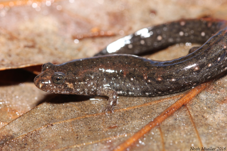 Southern dusky salamander from Florida.